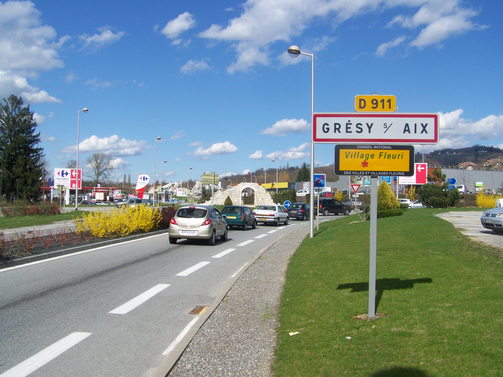 Sign welcoming visitors to the French commune of Grésy sur Aix near Aix-les-Bains in Savoie.